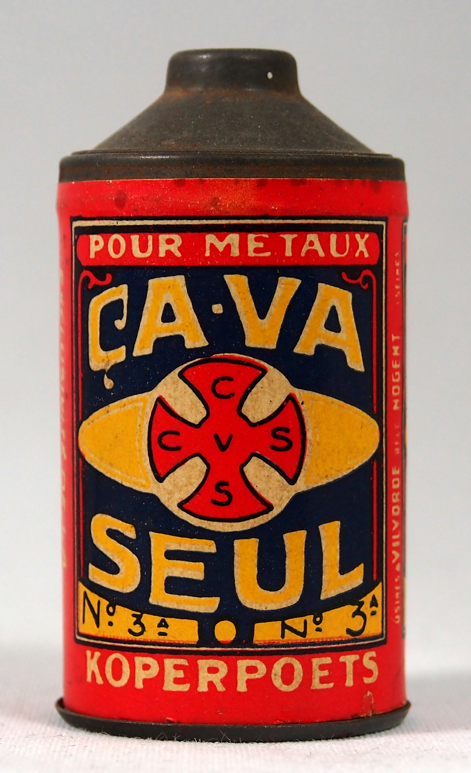 Very old packaging of a Dutch product that is not produced and not sold any more. Photographed at a collector of Droste. For info see tincollectors.nl or